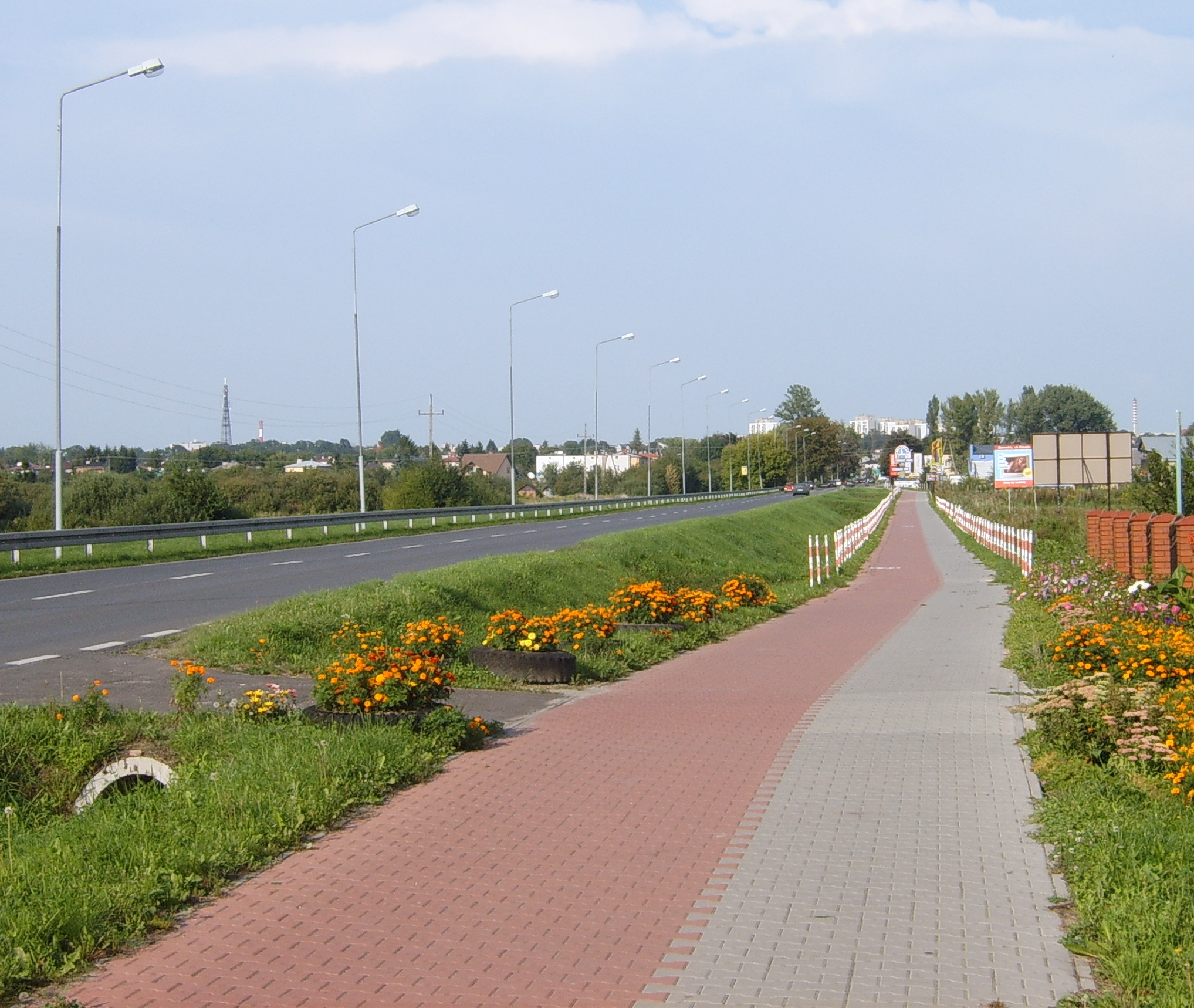 Segregated cycle facilities in Zamość (Lipska St.), Poland